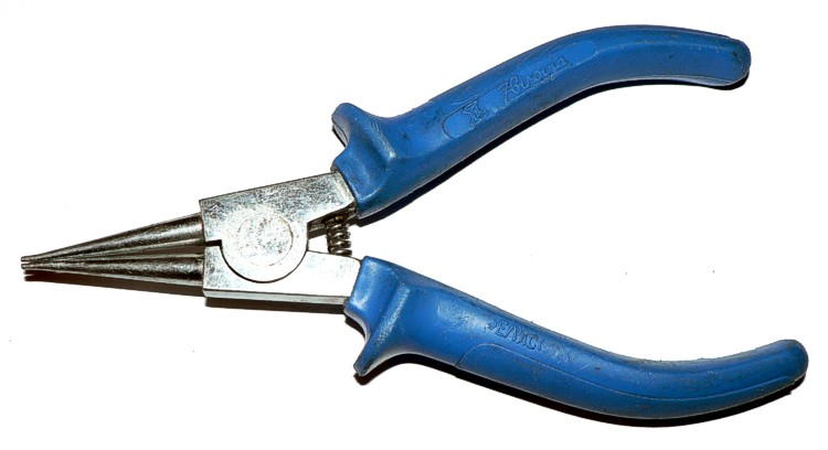 Seeger ring pliers.